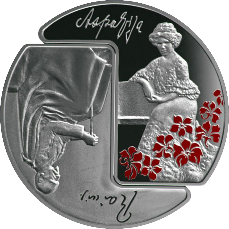 Lats commemorative coin